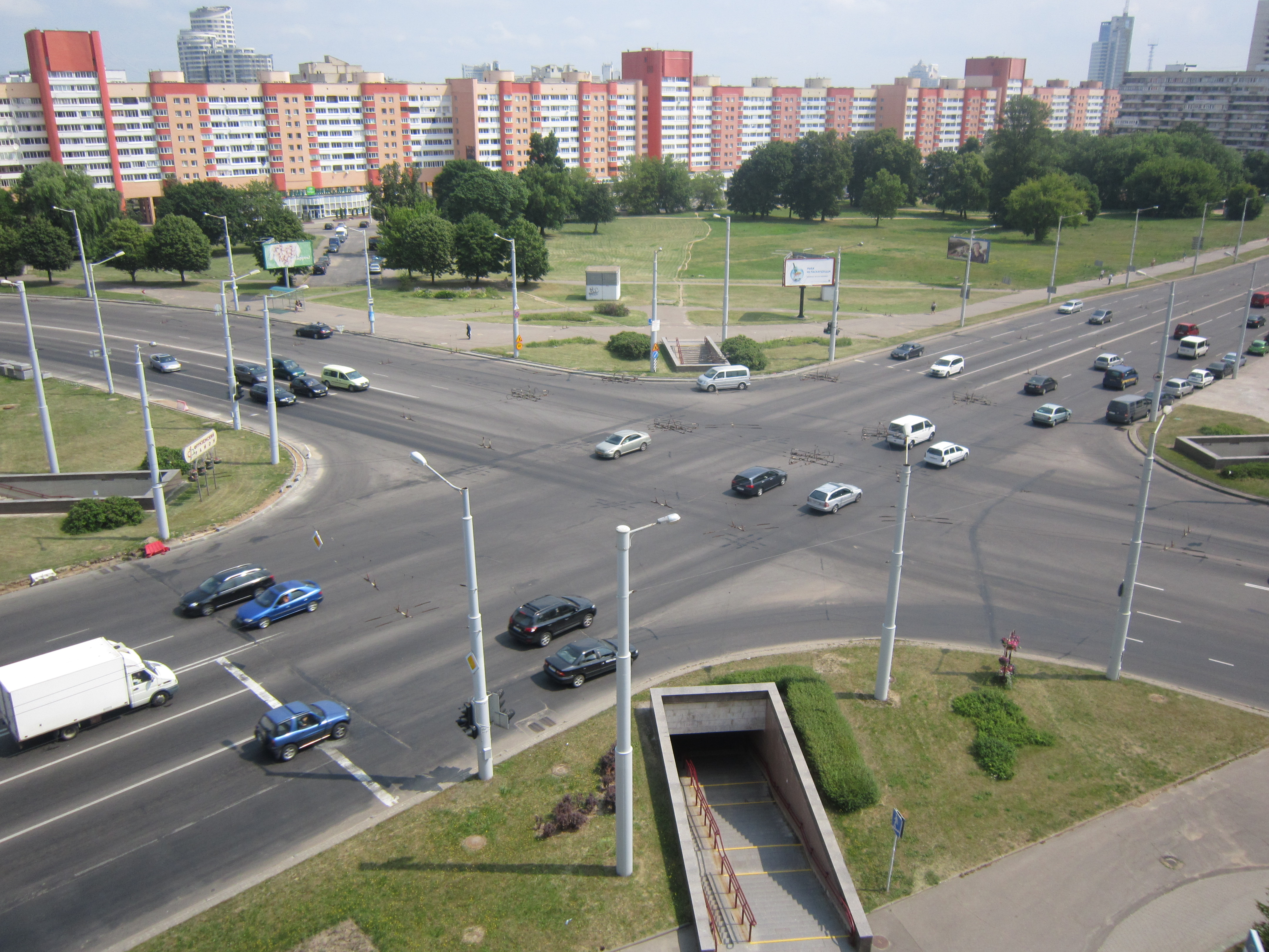 Intersection of Kalvaryjskaja, Cimirazeva and Clara Zetkin streets in Minsk